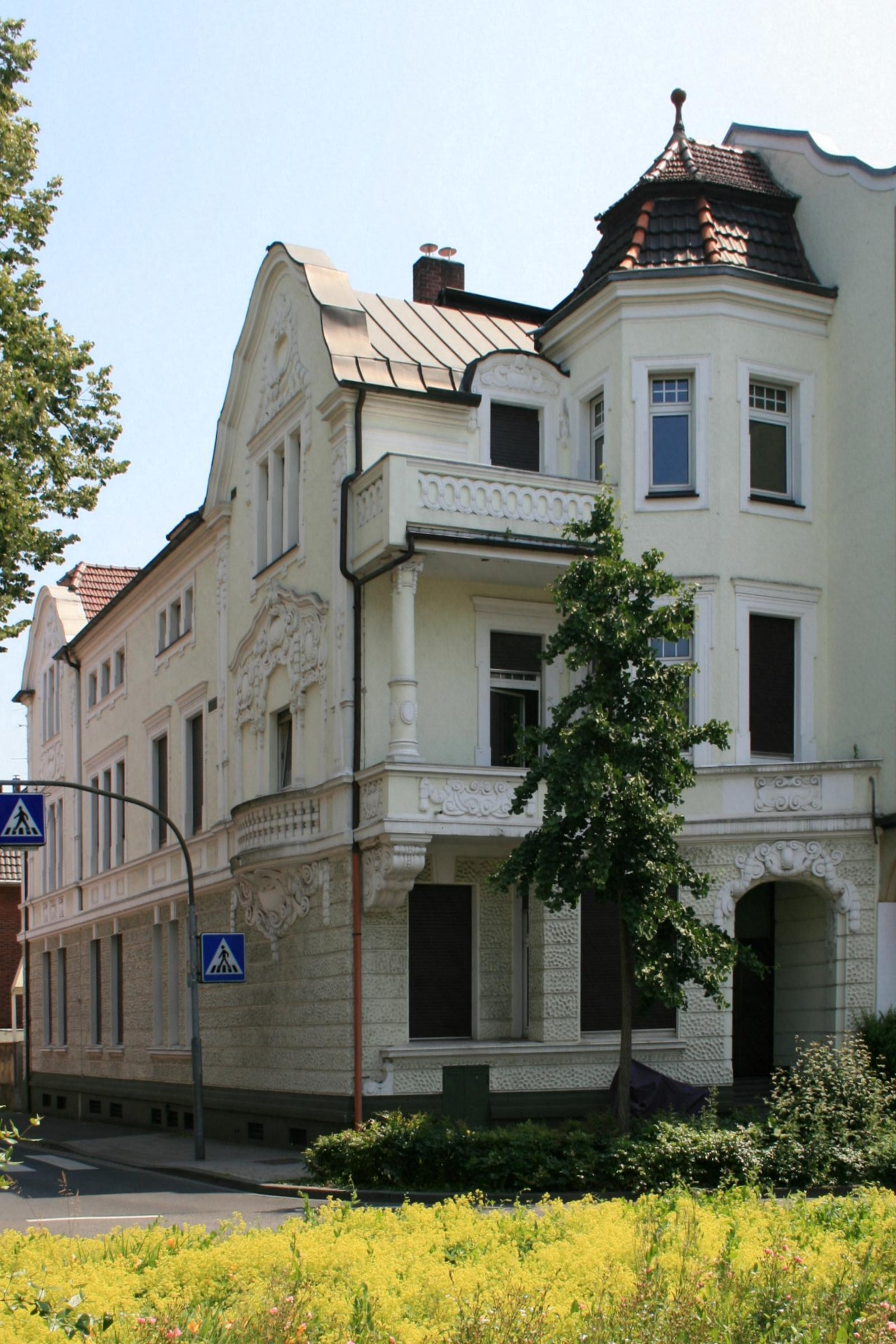 Cultural heritage monument No. B 006 in Mönchengladbach